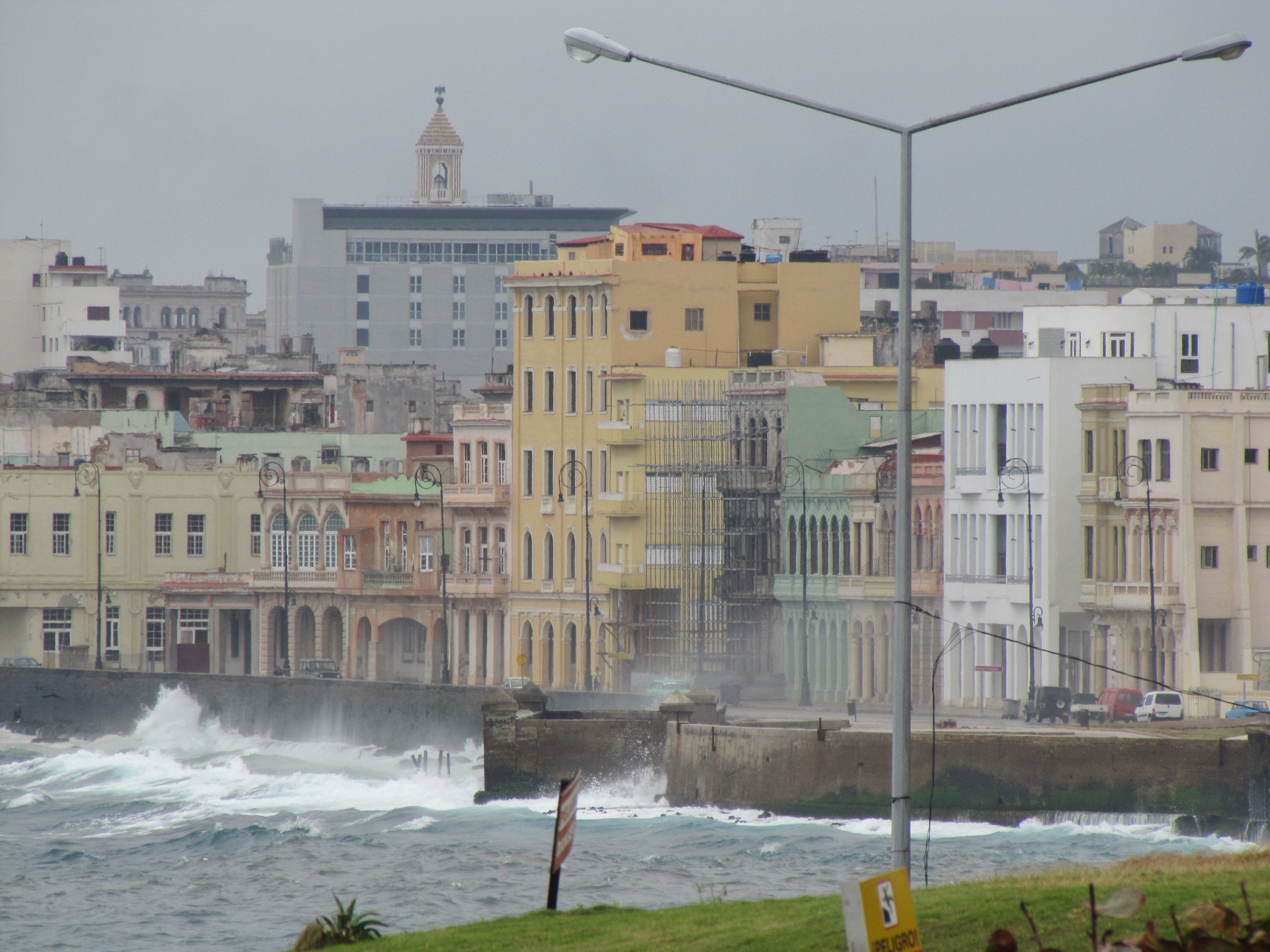 Havana Bay seen from the Hotel Nacional de Cuba